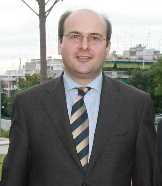 Greek politician Kostis Hatzidakis in May 2010.